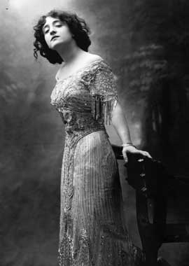 Mario Nunes Vais (1856-1932), "Lyda Borelli".